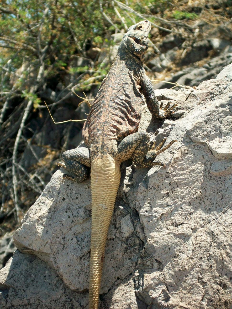 A male Common Chuckwalla on Tempe Butte in Tempe, AZ